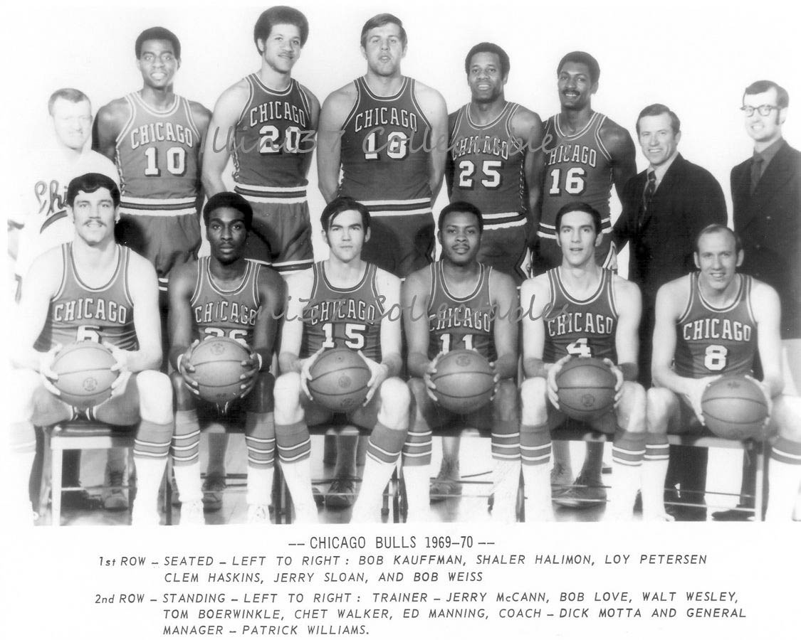 The 1969-70 team photo of Chicago Bulls.